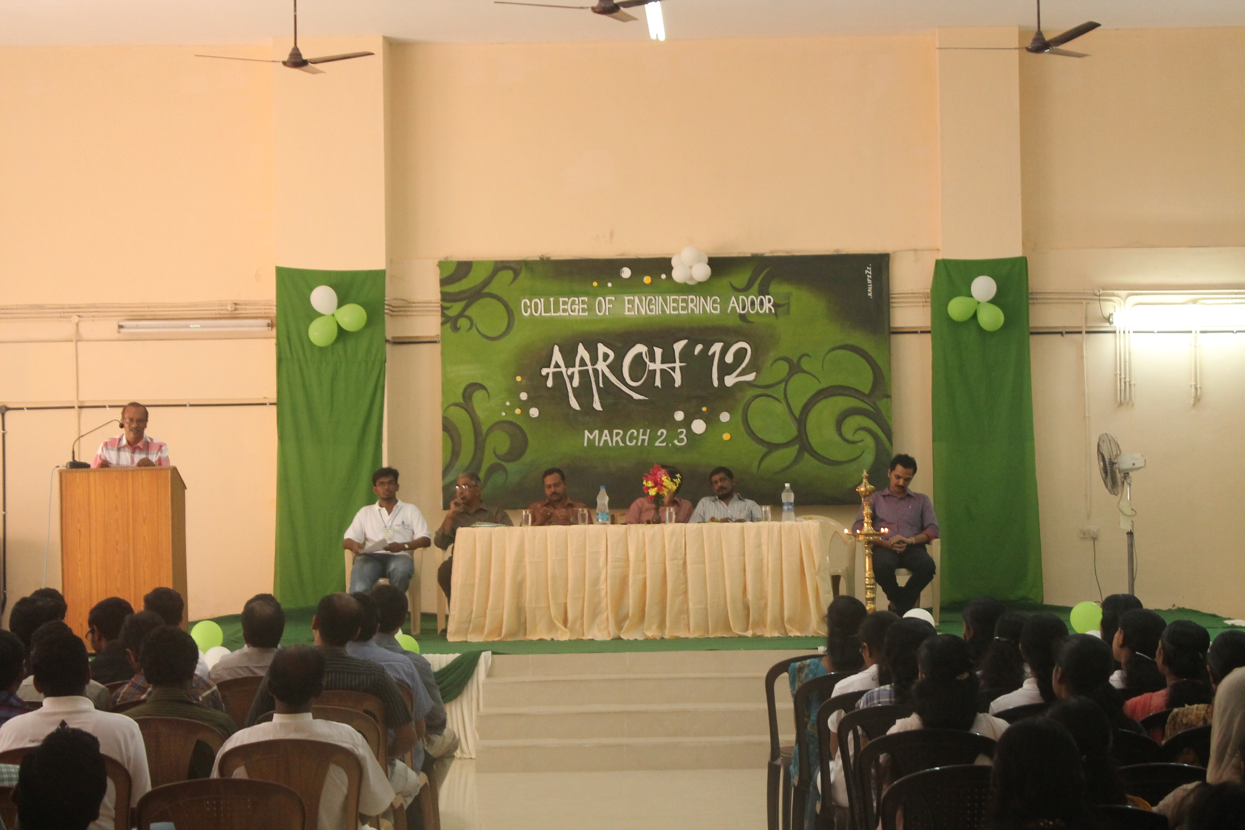 Aaroh inaguration ceremony image